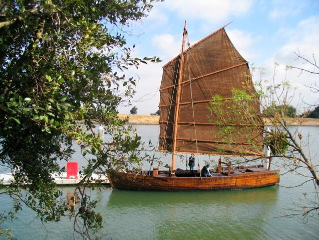 The replica Chinese shrimp fishing junk Grace Quan, built in 2003, on San Francisco Bay